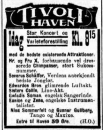 Ad in the newspaper "Aftenposten" for concert and variety show in "Tivoli-Haven" in Oslo, Aftenposten 1914-8-11